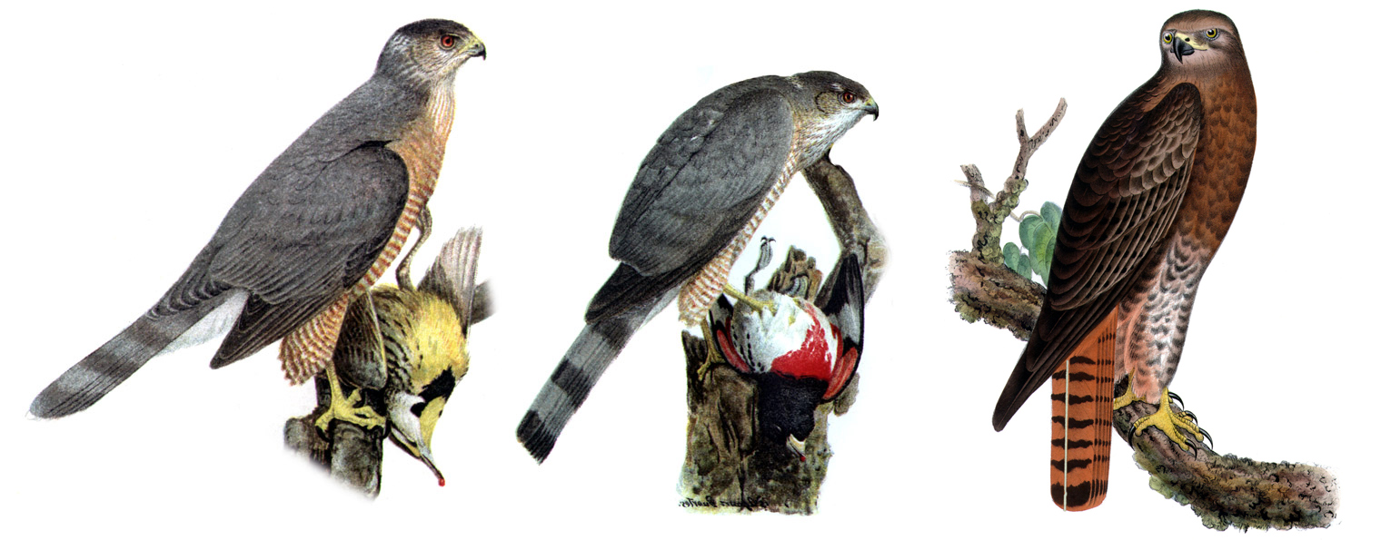 Three different species known as "Chickenhawks". Montage of drawings. May not be to scale. Left to right: Accipiter cooperii, Cooper's Hawk Accipiter striatus, Sharp-shinned Hawk Buteo calurus. Red-tailed Black Hawk. (Modern nomenclature: Western Red-tailed Hawk, Buteo jamaicensis calurus)